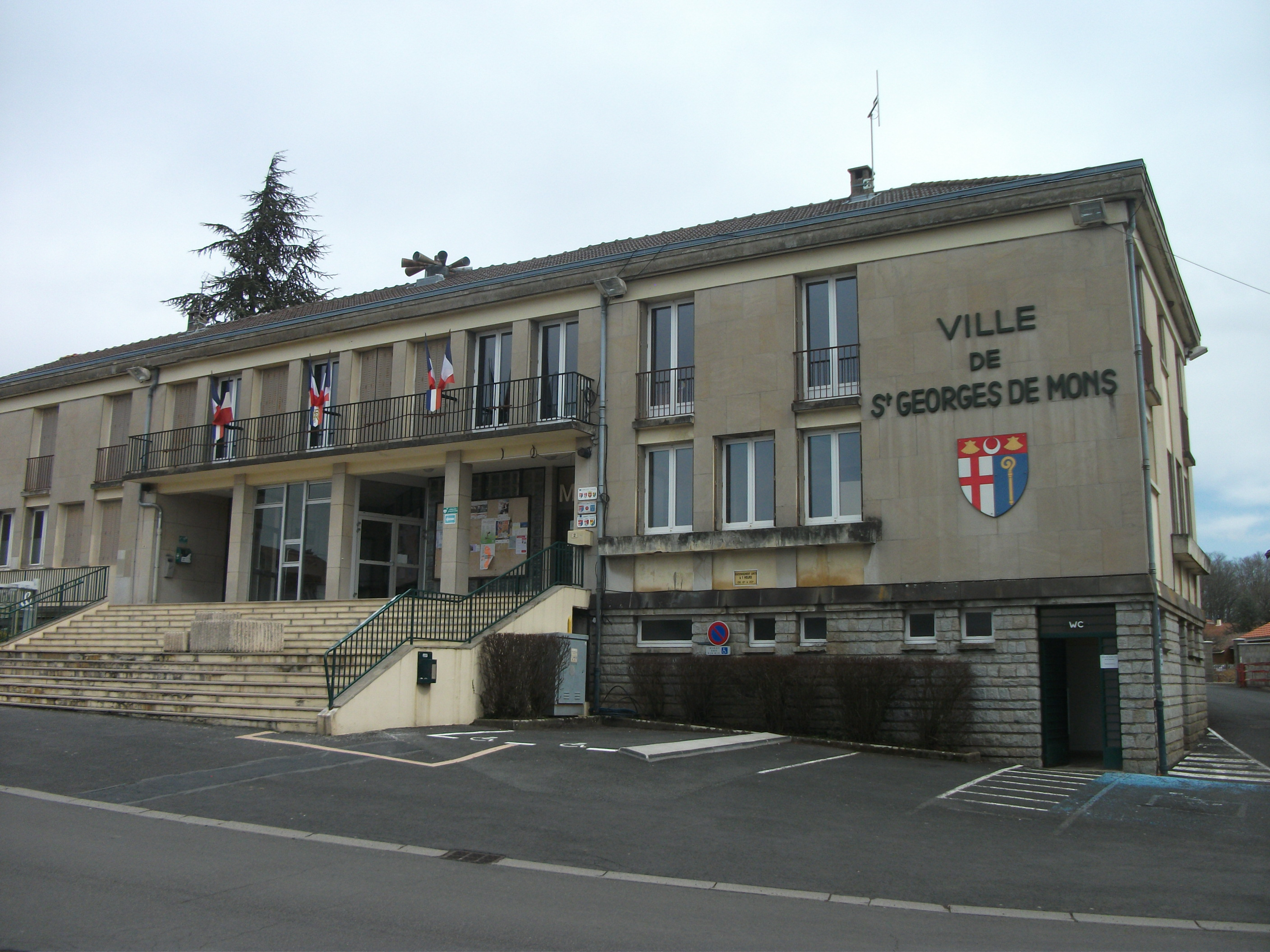 Town hall of Saint-Georges-de-Mons [15868]